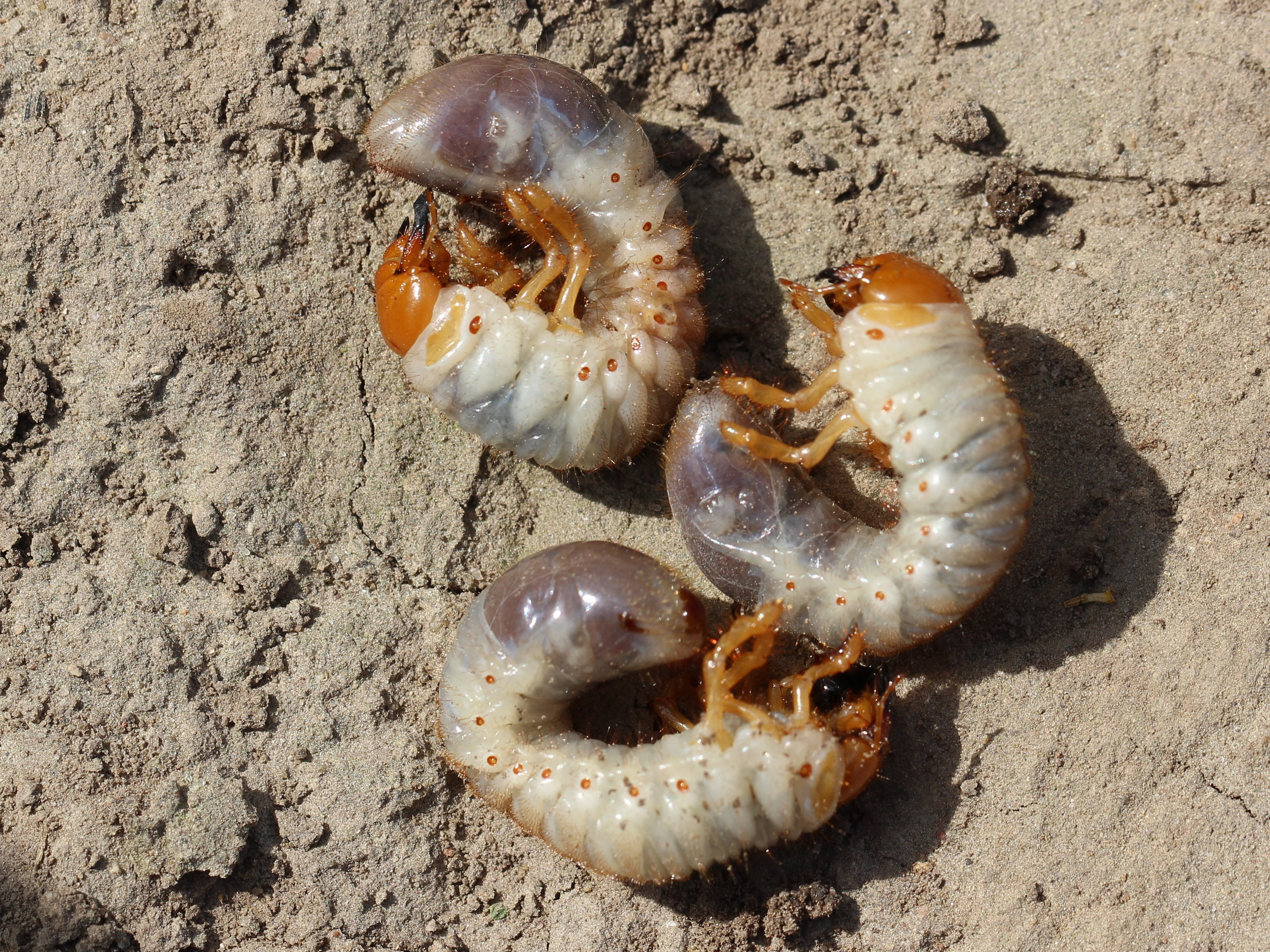 Melolontha melolontha